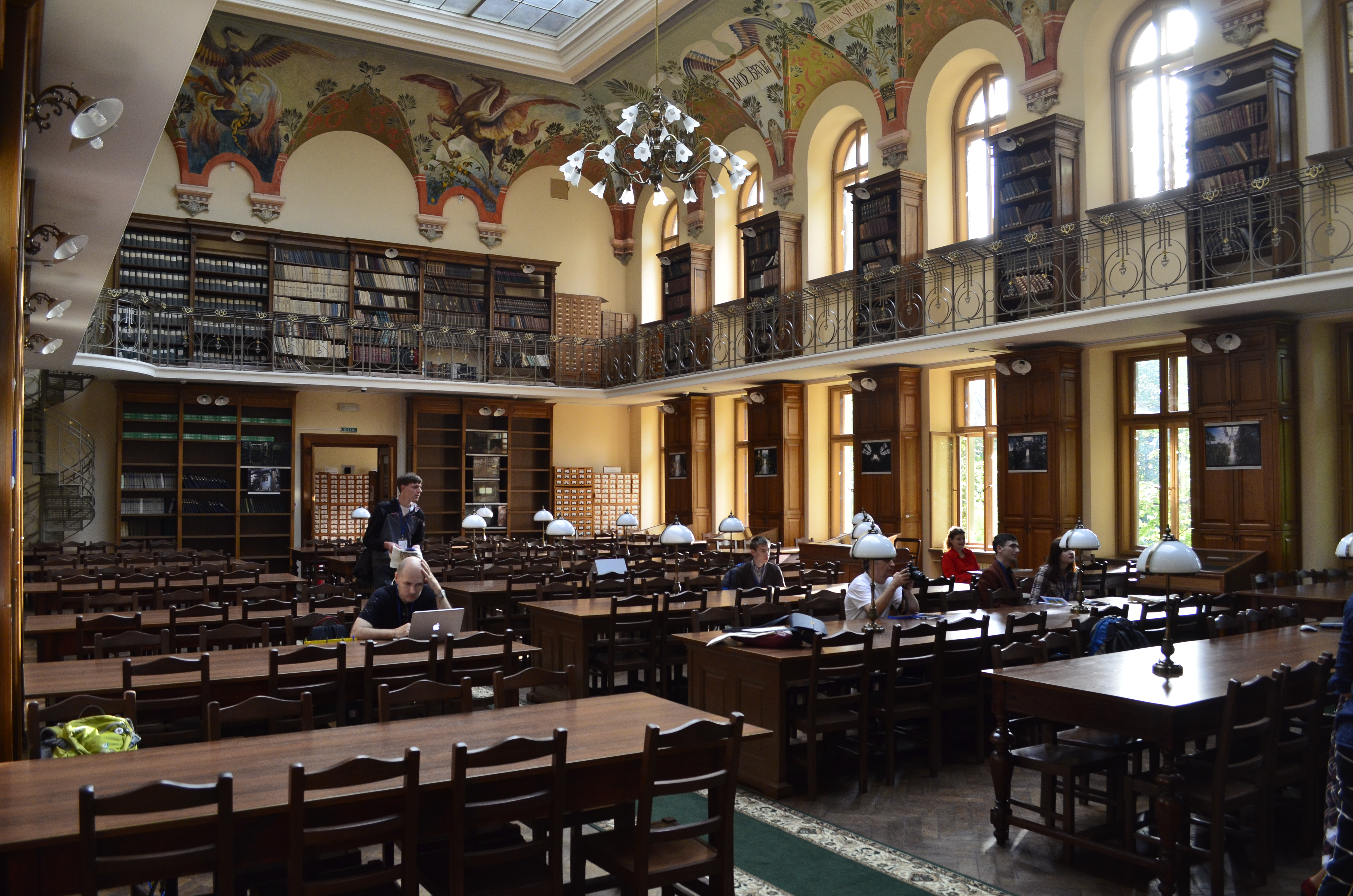 WikiConference 2015 Lviv - About WMF